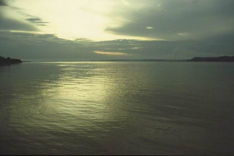 Xingu River created by he:משתמש:בן הטבע